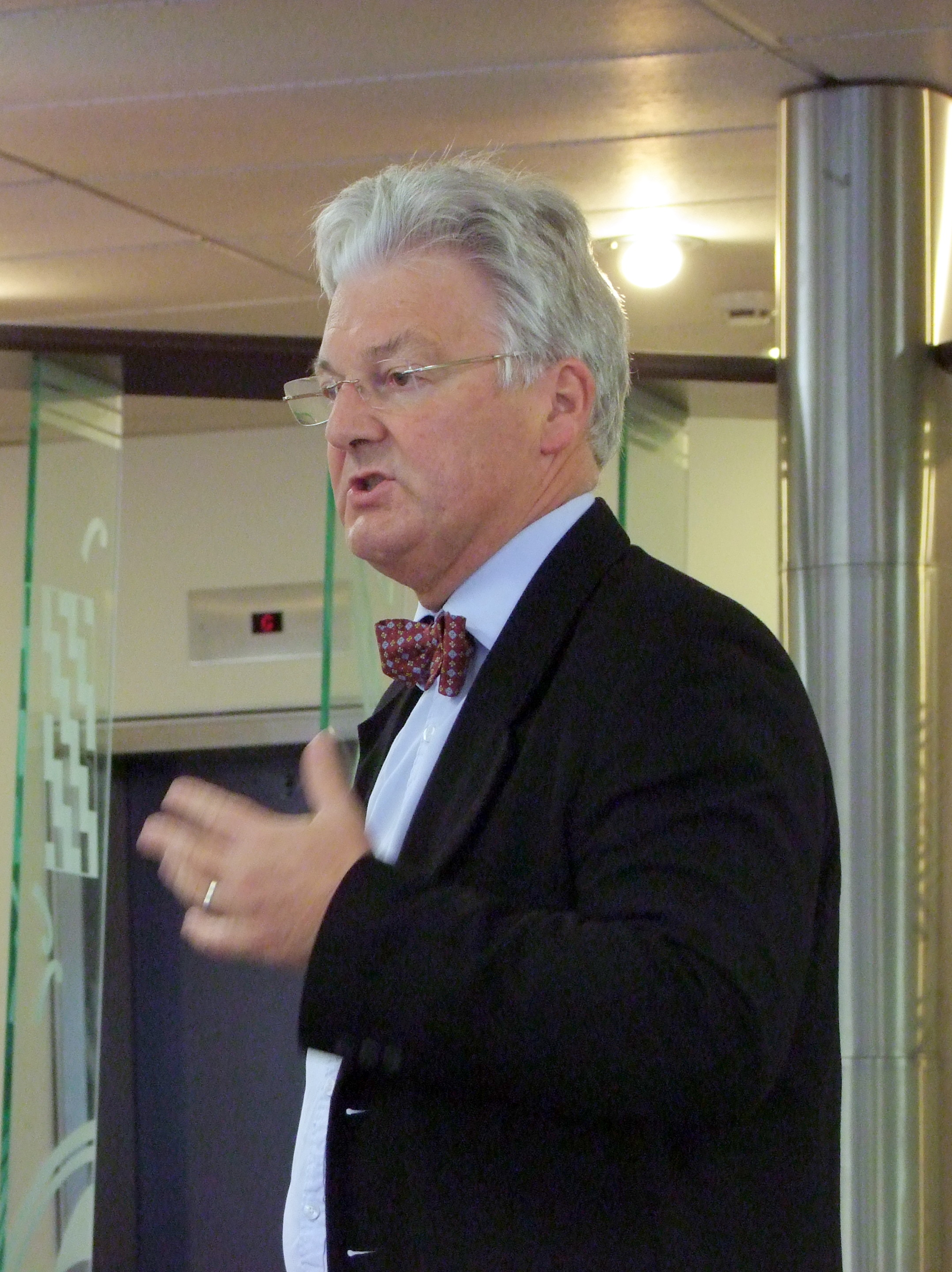 Peter Dunne speaking at a Tertiary Education Union (NZTEU) organised Paid Parental Leave event in 2012